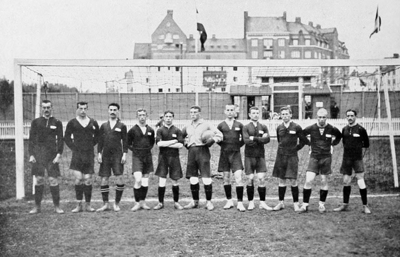 The Russia national football team at the 1912 Summer Olympics. From left: Uversky, Sokolov, Nikitin, M. Smirnov, Zhitarev, Favorsky, Yakovlev, Khromov, Butusov, Rimsha, Filippov.